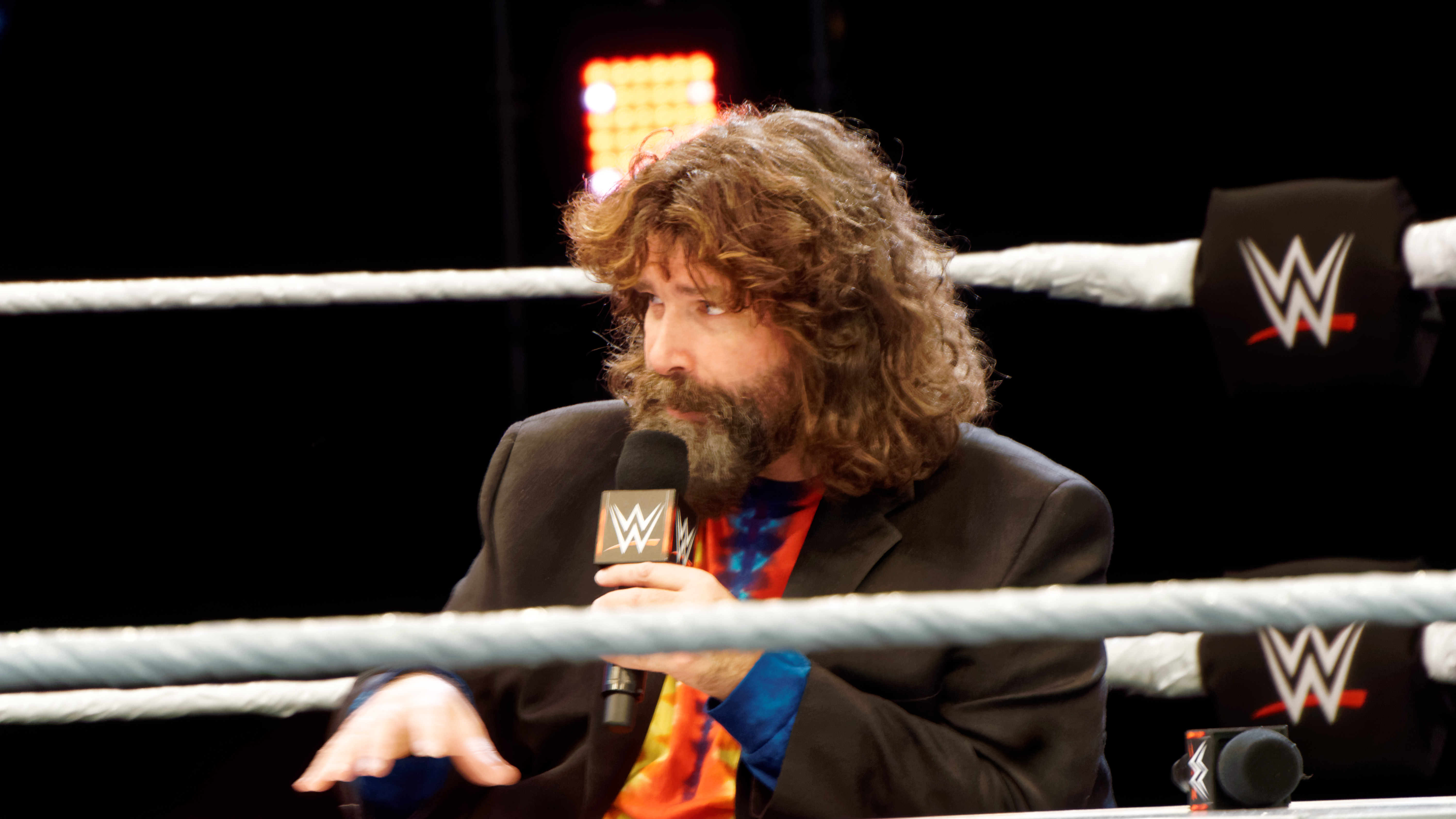 WrestleMania Axxess takes over the Kay Bailey Hutchison Convention Center in Dallas March 31-April 3. Featuring Superstar and Diva meet-and-greets, memorabilia displays and much more, WrestleMania Axxess is one event WWE fans of all ages will want to be part of. Don't miss out!